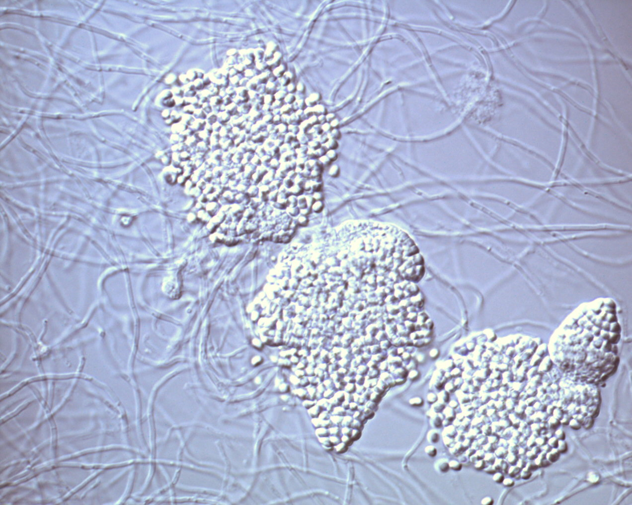 Sporangium of symbiotic nitrogen-fixing bacterium Frankia